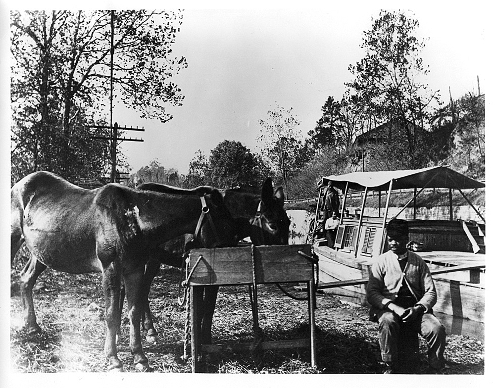 Mules, and African/American canallers, identified as Henry and Louise Williams and Andy Jenkins (see National Park Service site also with this same photo). Note the telephone pole in the background with the cable. While it was known that the C&O canal had its own phone system since the 1870's, that pole may have been someone else's, and also it has an awful lot of insulators, for a phone line that only had 3 circuits.